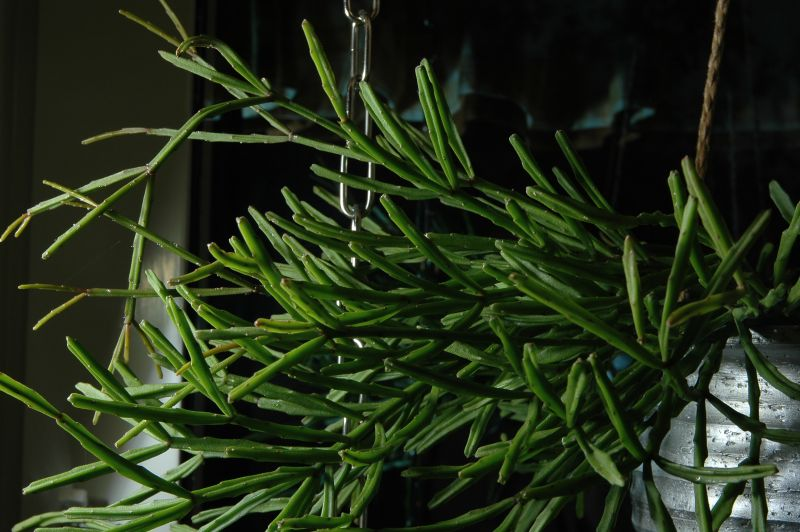 My own plant